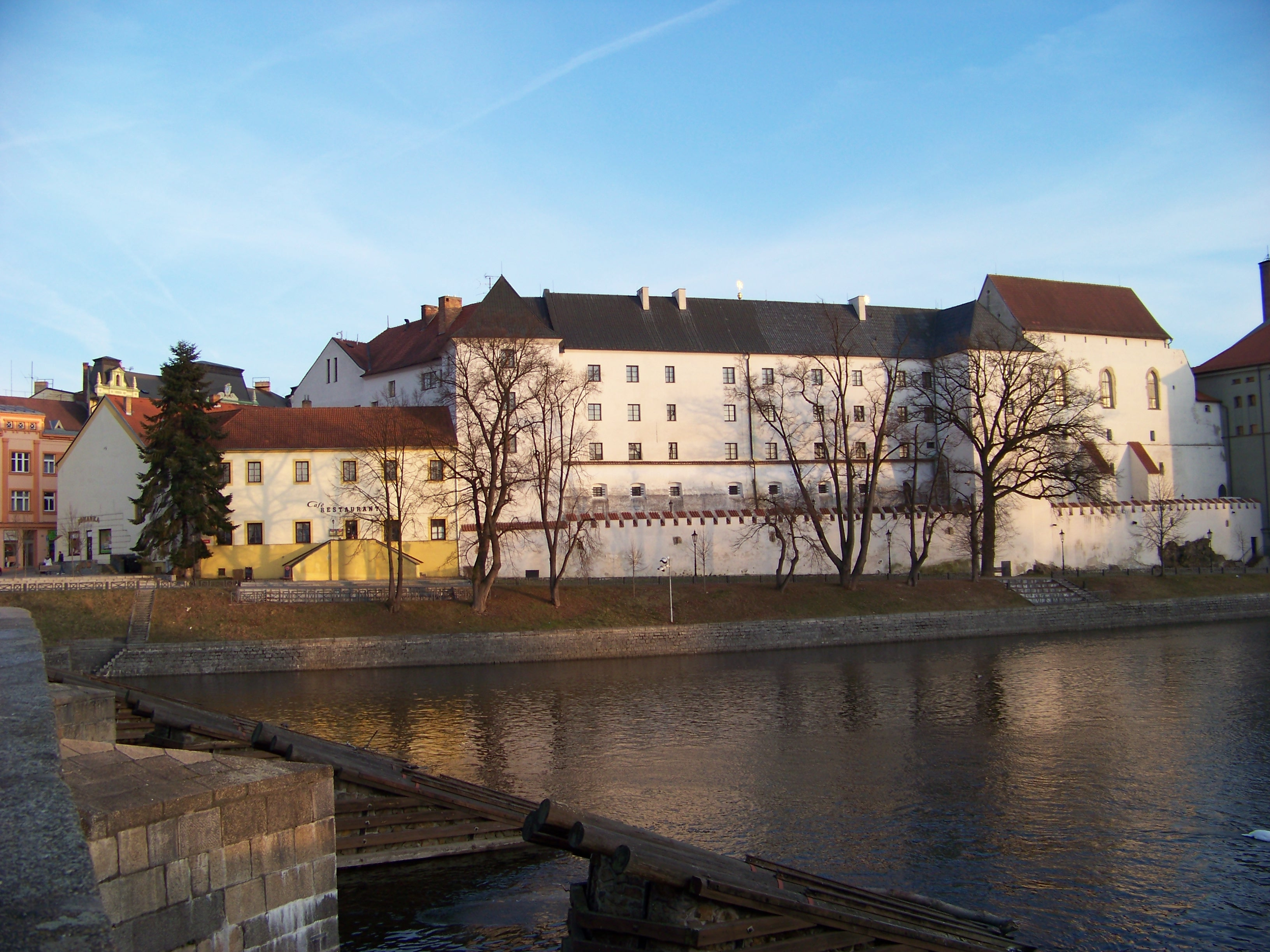 Písek, Písek District, South Bohemian Region, the Czech Republic. Otava River, a view of the castle from the Stone Bridge. - OpenStreetMap(Info)